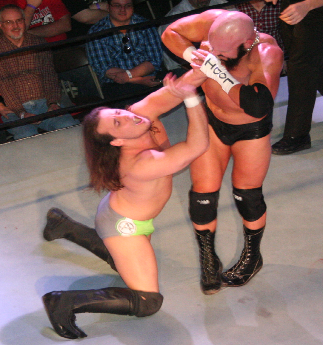 Professional wrestlers Lodi and Andrew Everett in 2013.